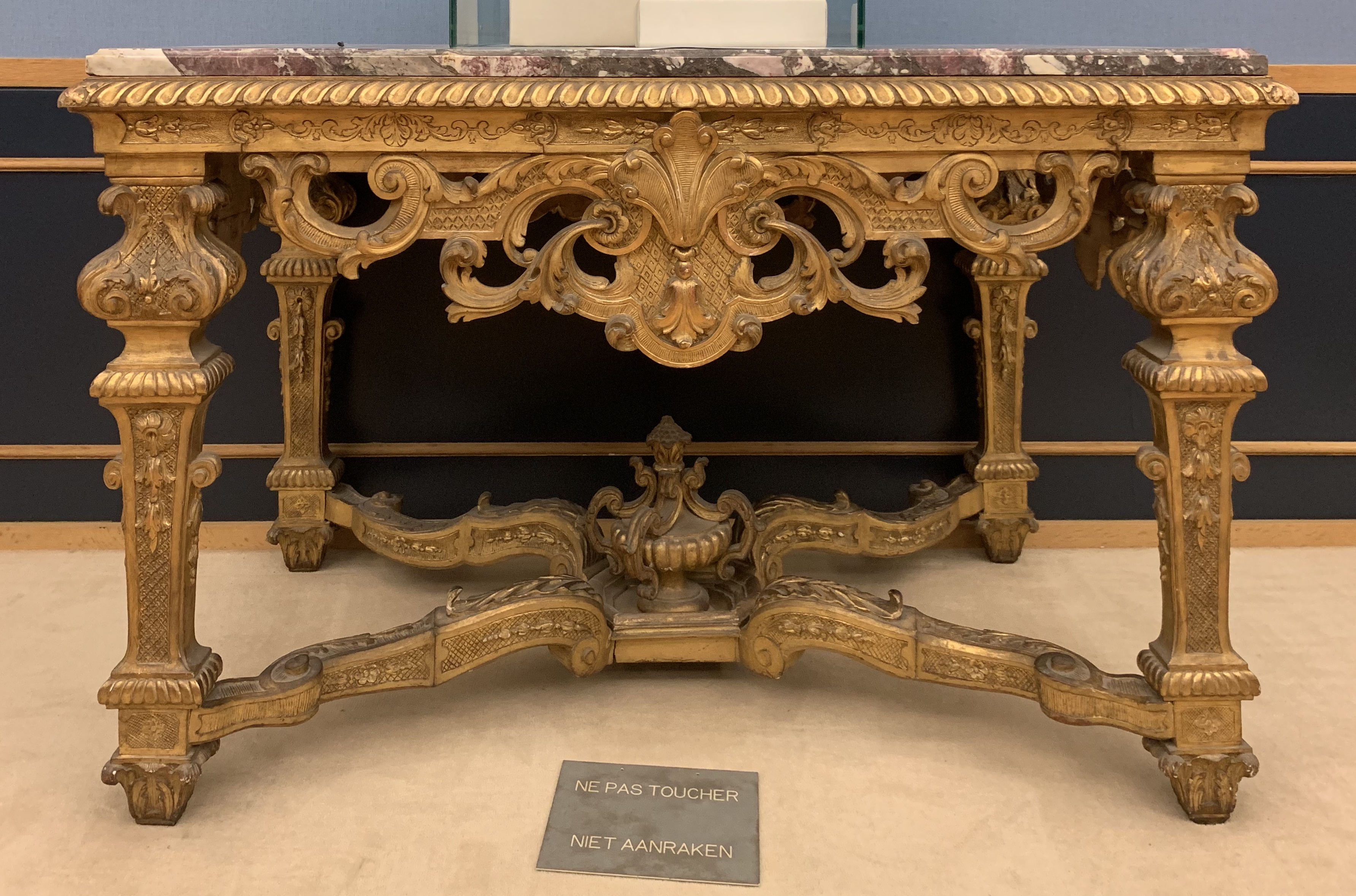 Beautiful Baroque gilded table from the Cinquantenaire Museum (Bruxelles, Belgium)